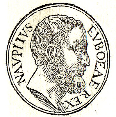 This is the more famous Nauplius, and was great-great-grandson of his namesake, the founder of Nauplia.